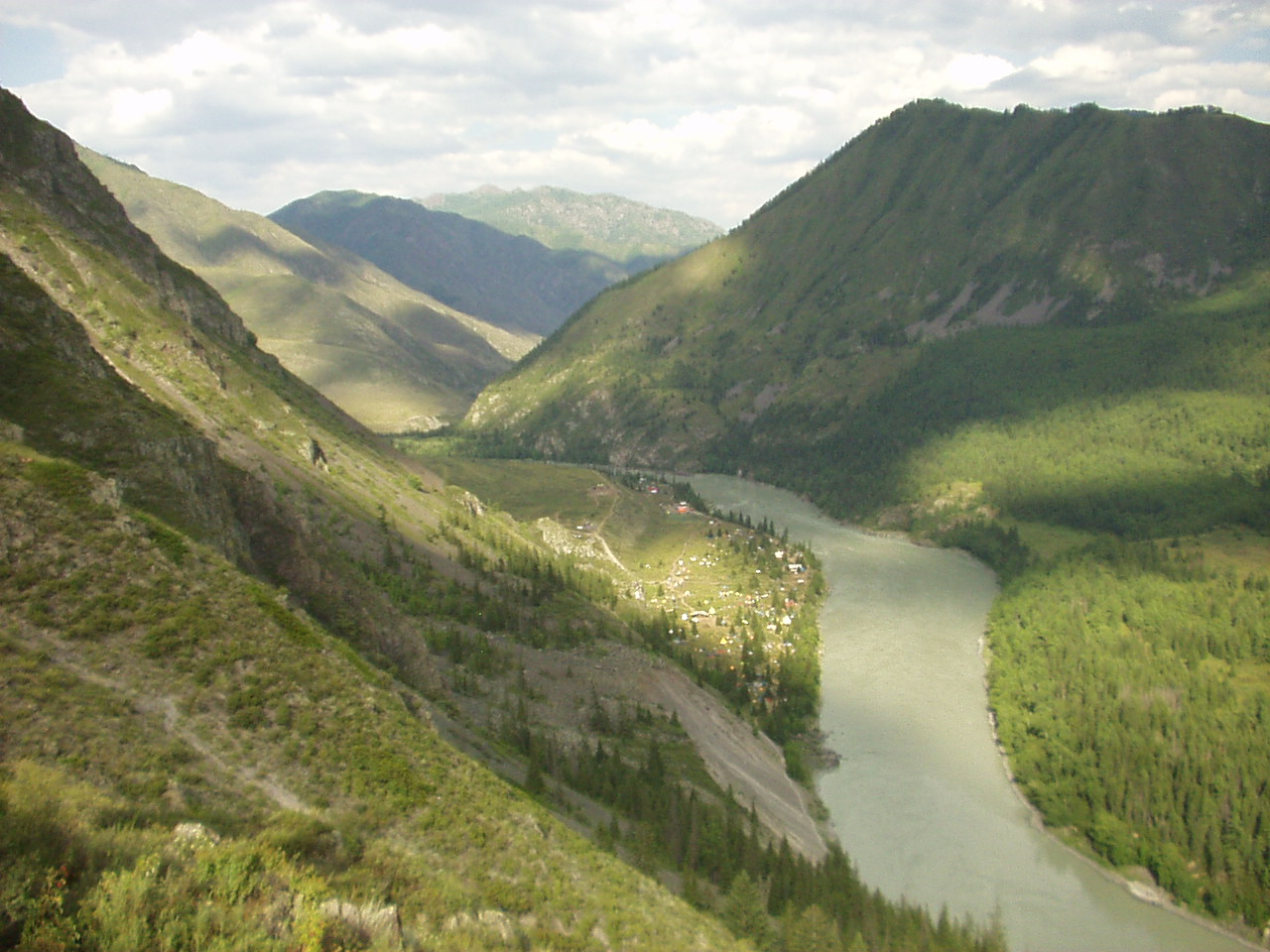 Katun' river valley at the point of junctions with Ursul and Big Sumulta rivers, Ongudai District, Altay Republic. The tent structures is the psytrance festival Khan-Altay dedicated to 100% solar eclipse watched from here.